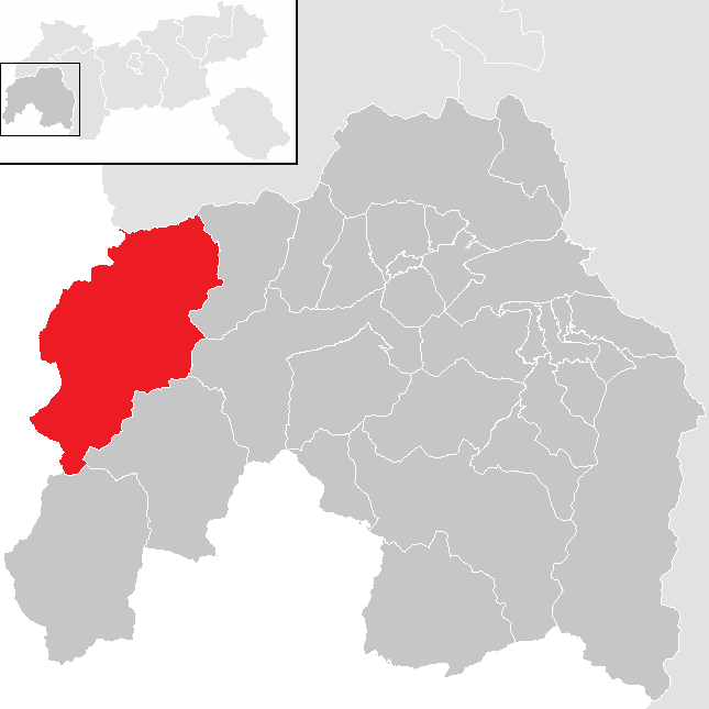 District Landeck